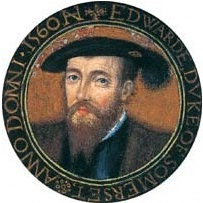 Miniature of Edward Seymour, duke of Somerset and lord protector of England